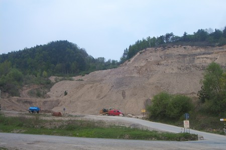 Quarry in Dąbrowa, PL